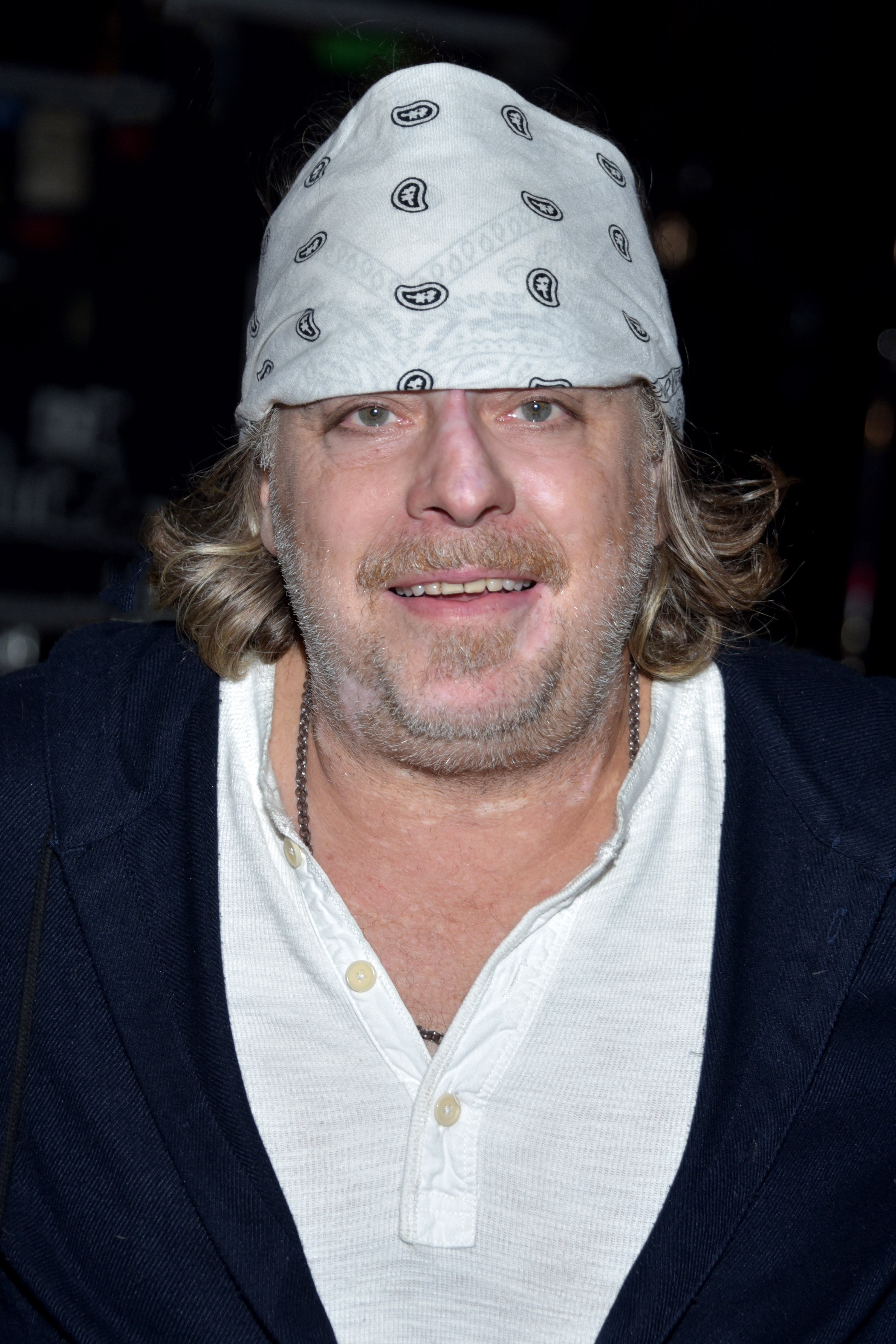 Leif Garrett in Pico Rivera California on October 28, 2017 - Photo by Glenn Francis of